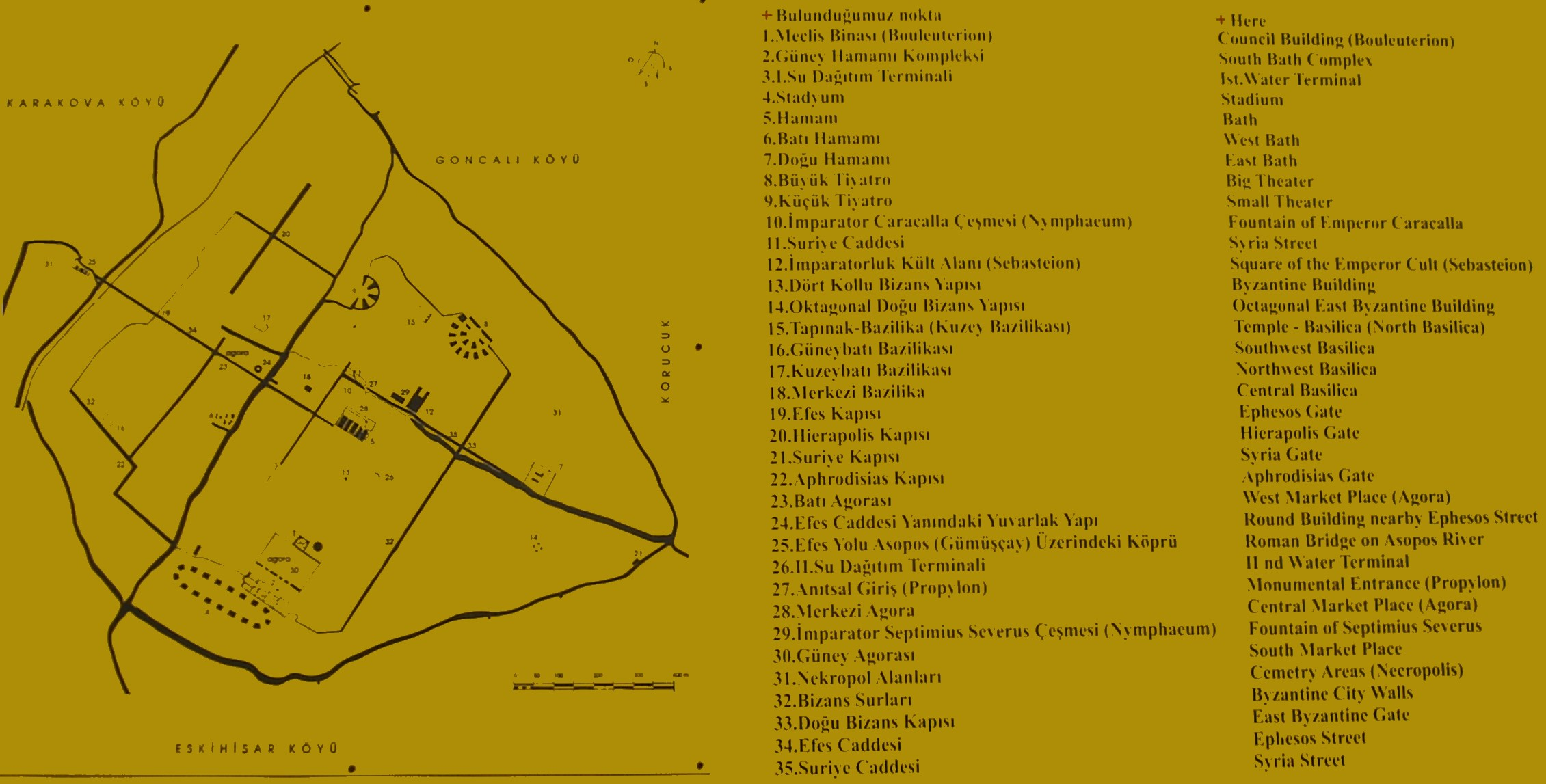 Map (in situ) of Laodicea-Lycos turquey